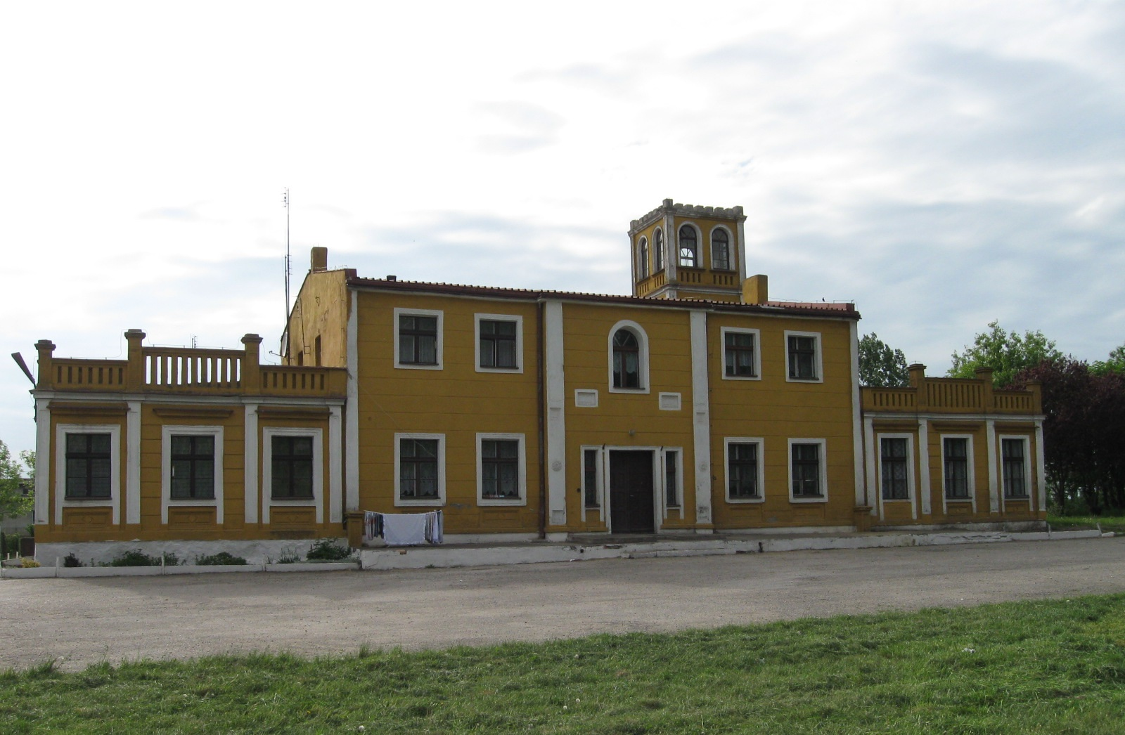 Janta-Połczyński's palace in Żabiczyn